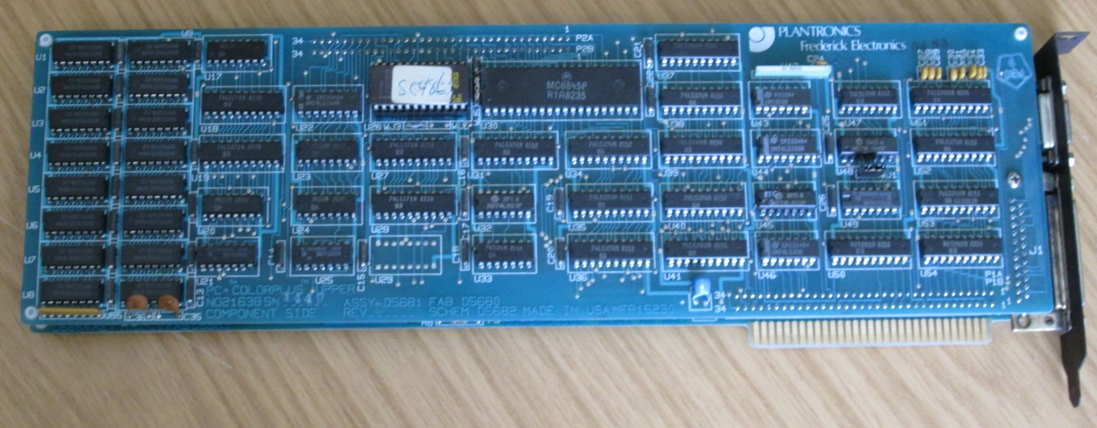 Plantronics Colorplus video card.